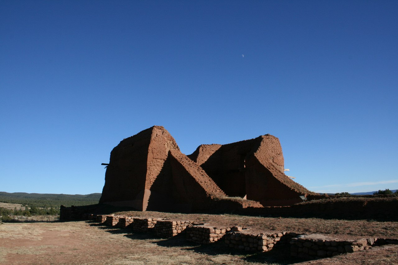 Pecos Pueblo ruins — Pecos National Historical Park. Southwest of Santa Fe, New Mexico are the remains of what was once the largest Indian pueblo in the Southwest. Pecos Pueblo dominated a major trading route between the farming Pueblo Indians and Great Plains' hunters. The pueblo was also a way station on the Santa Fe Trail.